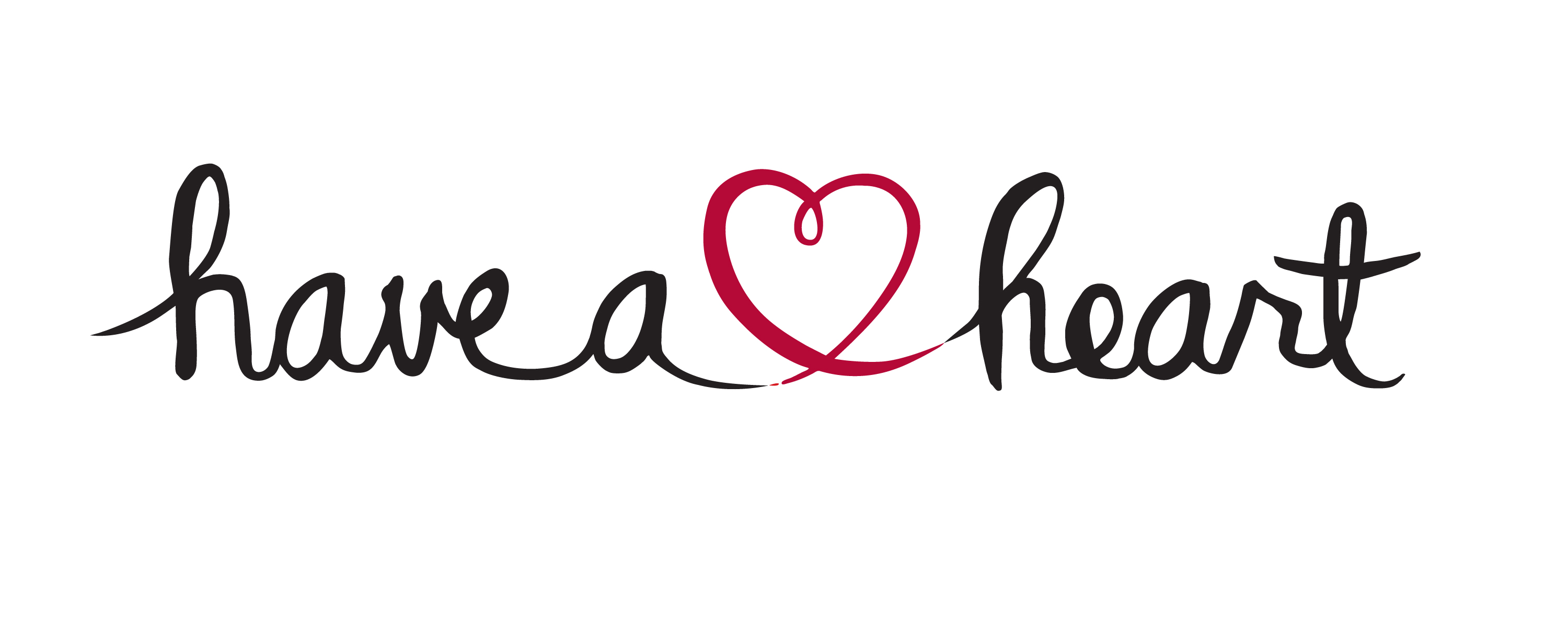 HaH